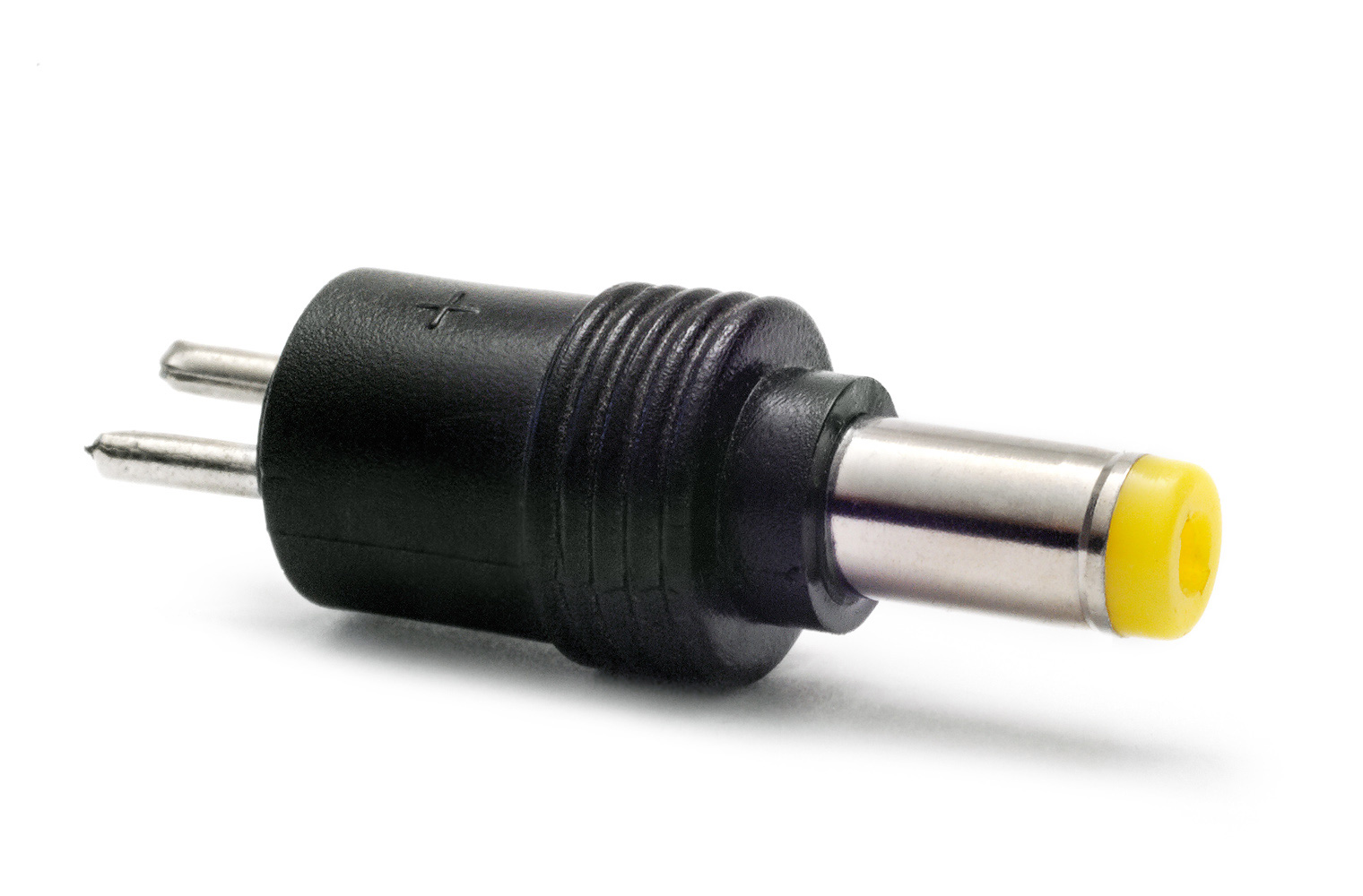 Close-up of EIAJ connector. Edit by Fir0002, cloned out blemish